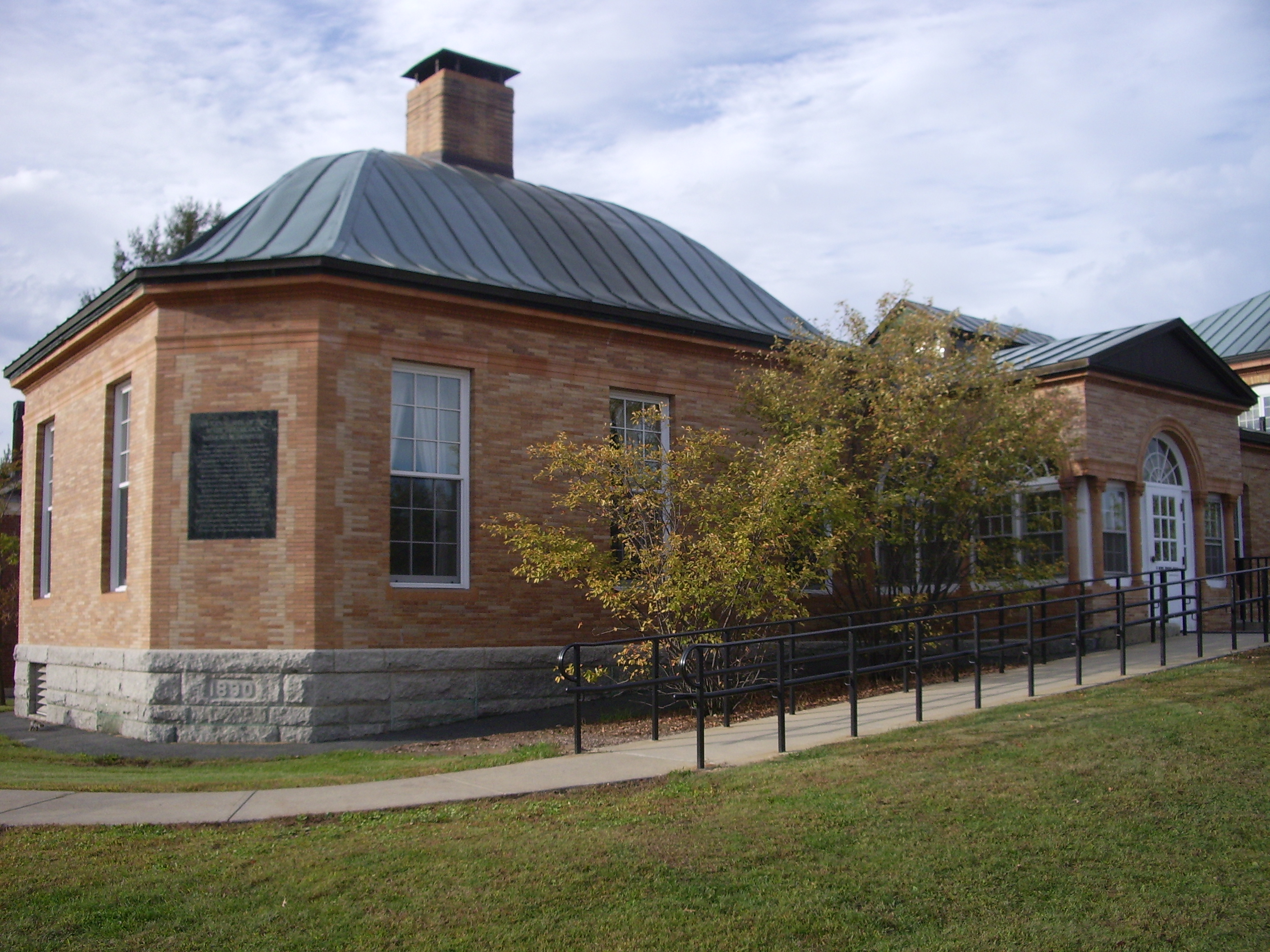 Photograph of 3 Rope Ferry Road at the campus of Dartmouth College in Hanover, New Hampshire.